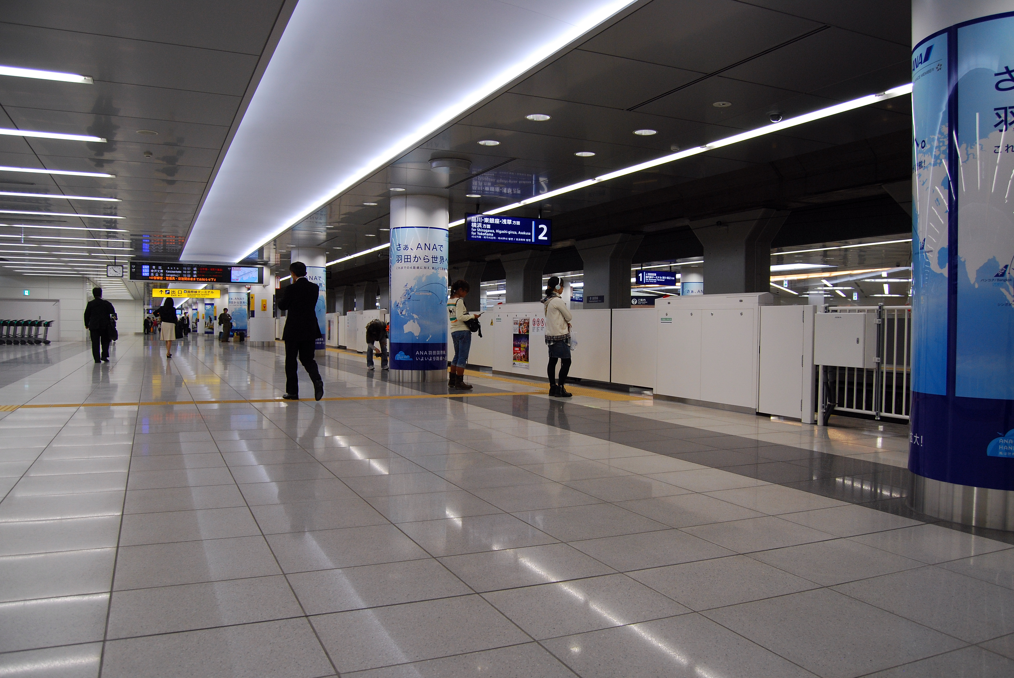 Haneda Airport International Terminal Station platform 2